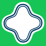 apanese Canned Drink "Skal" (symbol)